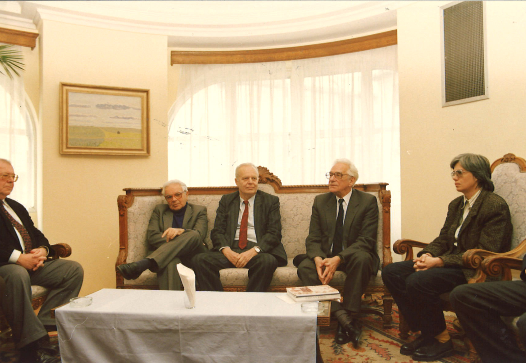 Assembly of founders of SANU, Aleksandar Despić with a colleagues in august 1995. year